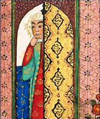 Painting of Ispanuy in The Shahnama of Shah Tahmasp